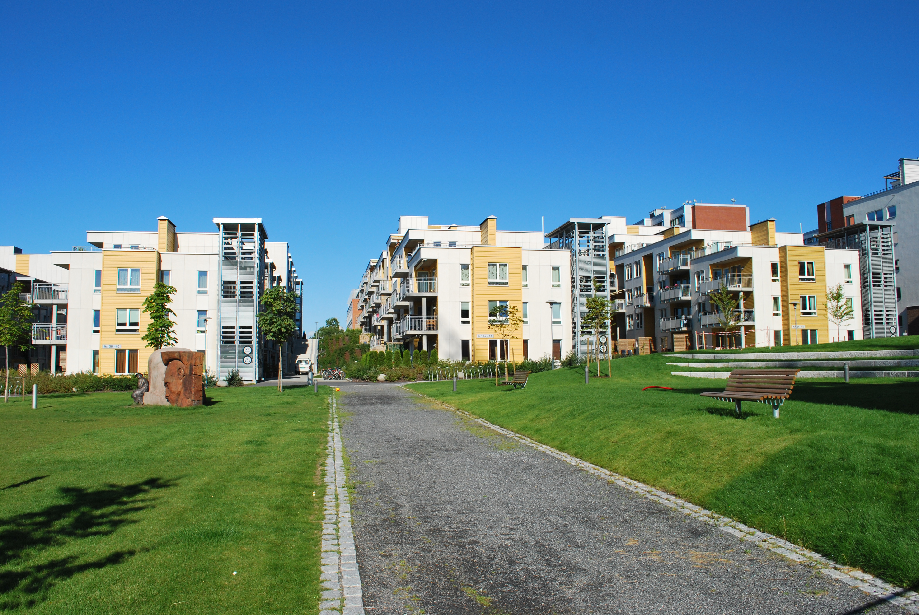 Lørenparken with new housing, Løren, Oslo